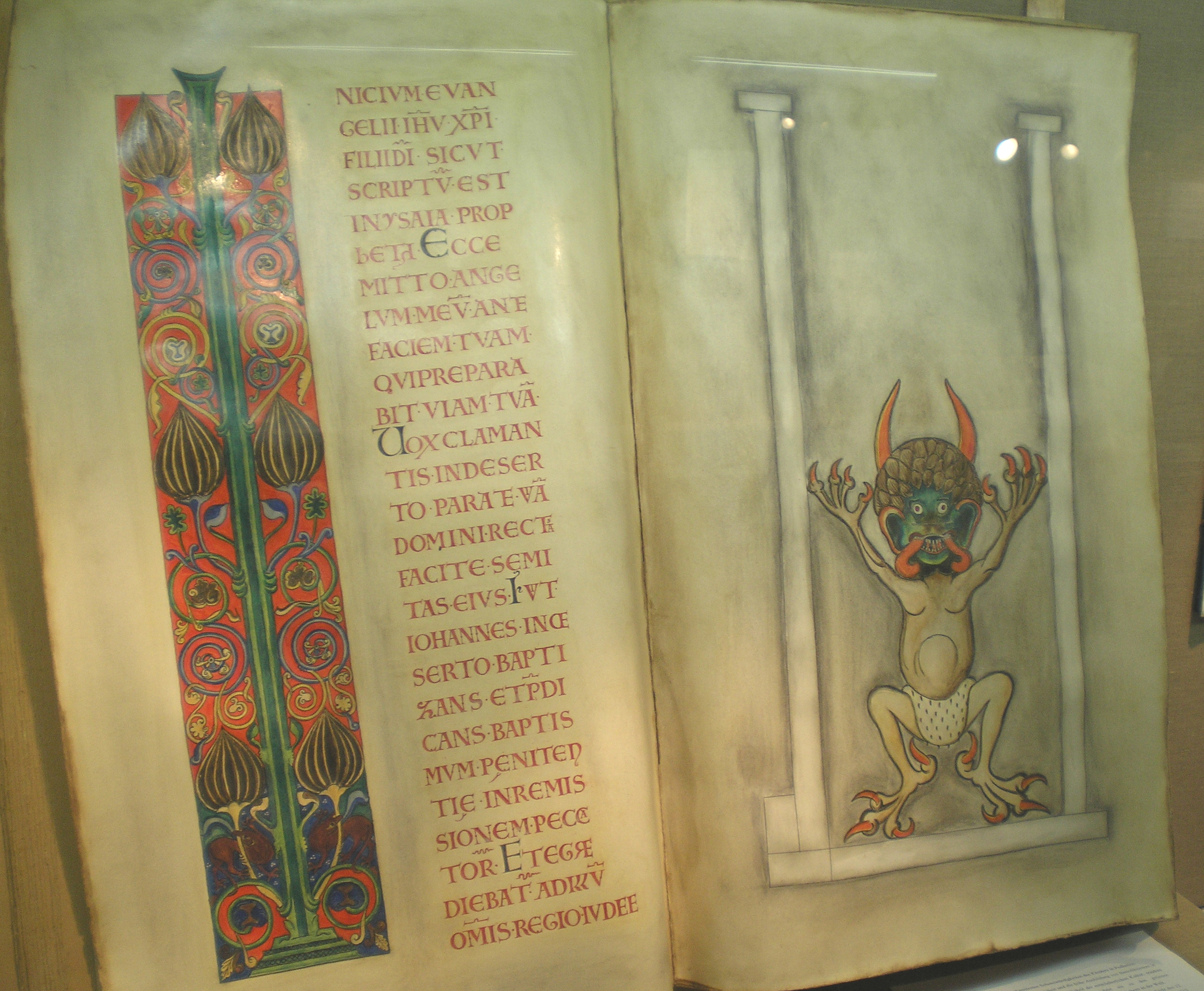 Chrast museum, maquette of the Kodex Gigas, originally from Podlažice Monastery